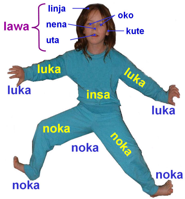 Parts of the human body in the Toki Pona constructed language